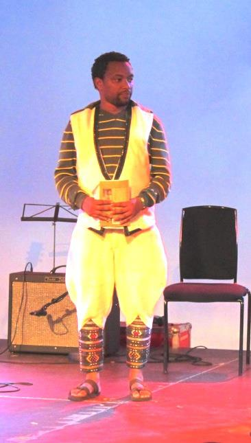 Poet Bewketu Seyoum while he was presenting his work.